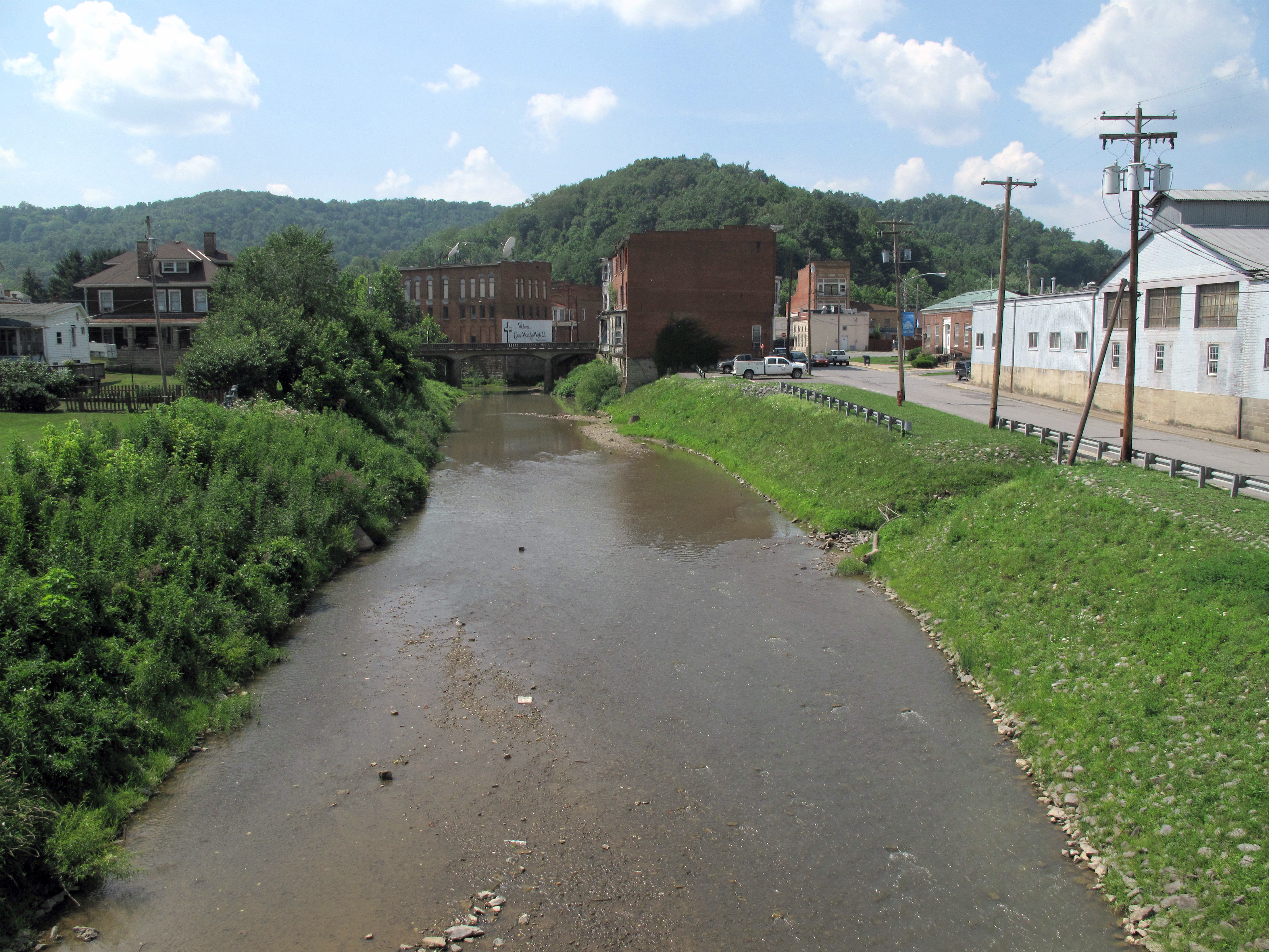 Buffalo Creek as viewed upstream from the Vietnam Veterans Memorial Swinging Bridge in Mannington, West Virginia